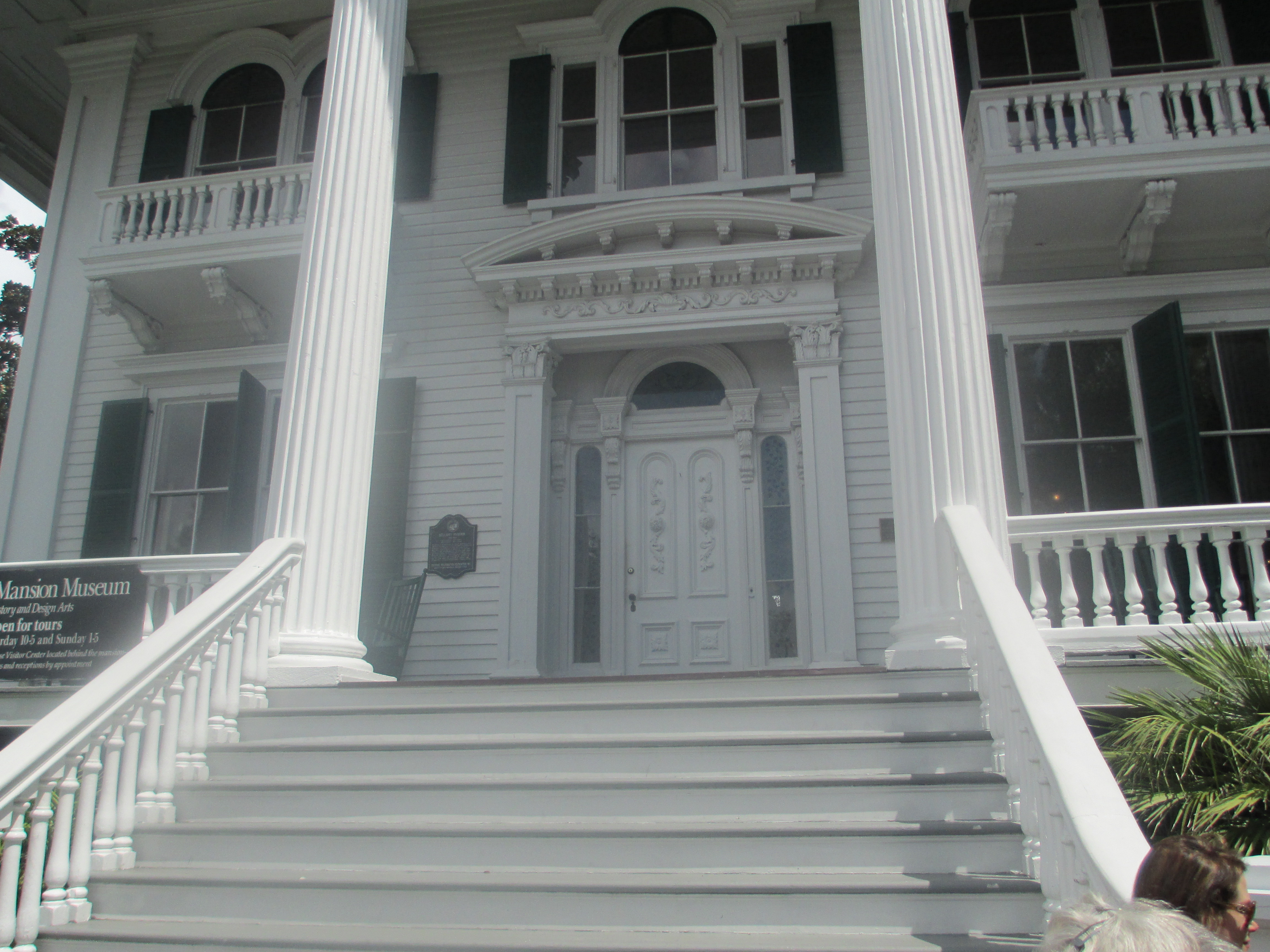 I took photo with Canon camera of Bellamy Mansion in Wilmington, NC.